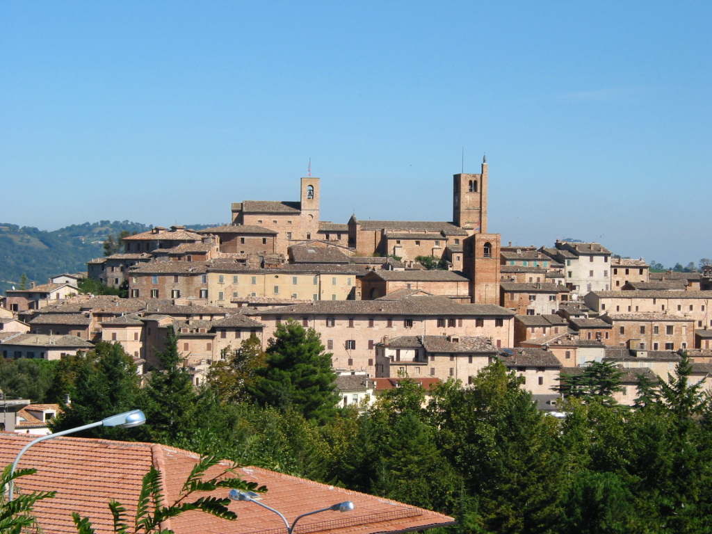 Sarnano, Marche, Italiaott.2.2002 Medieval Town Sarnano